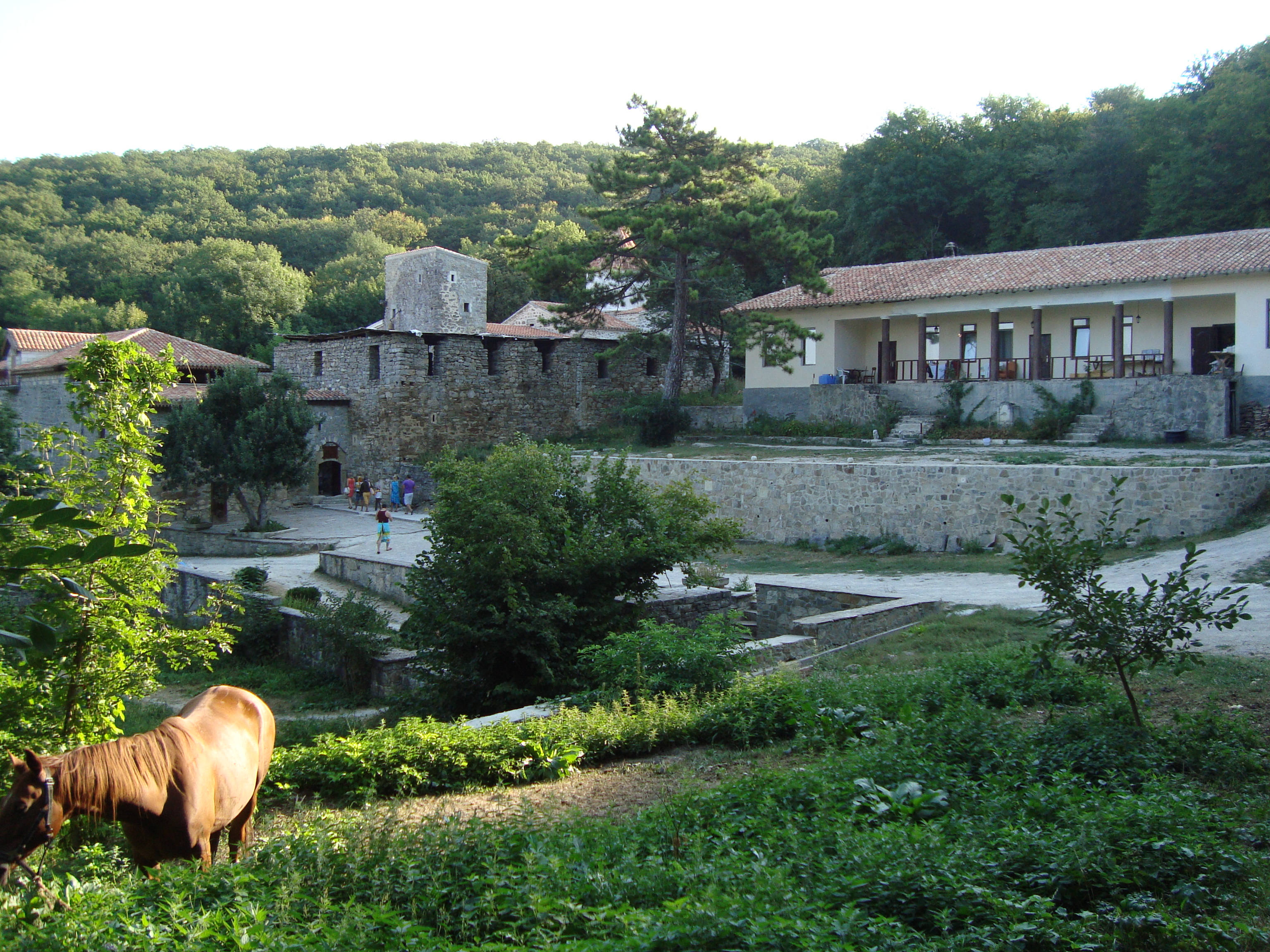 Panorama view of Surb Khach